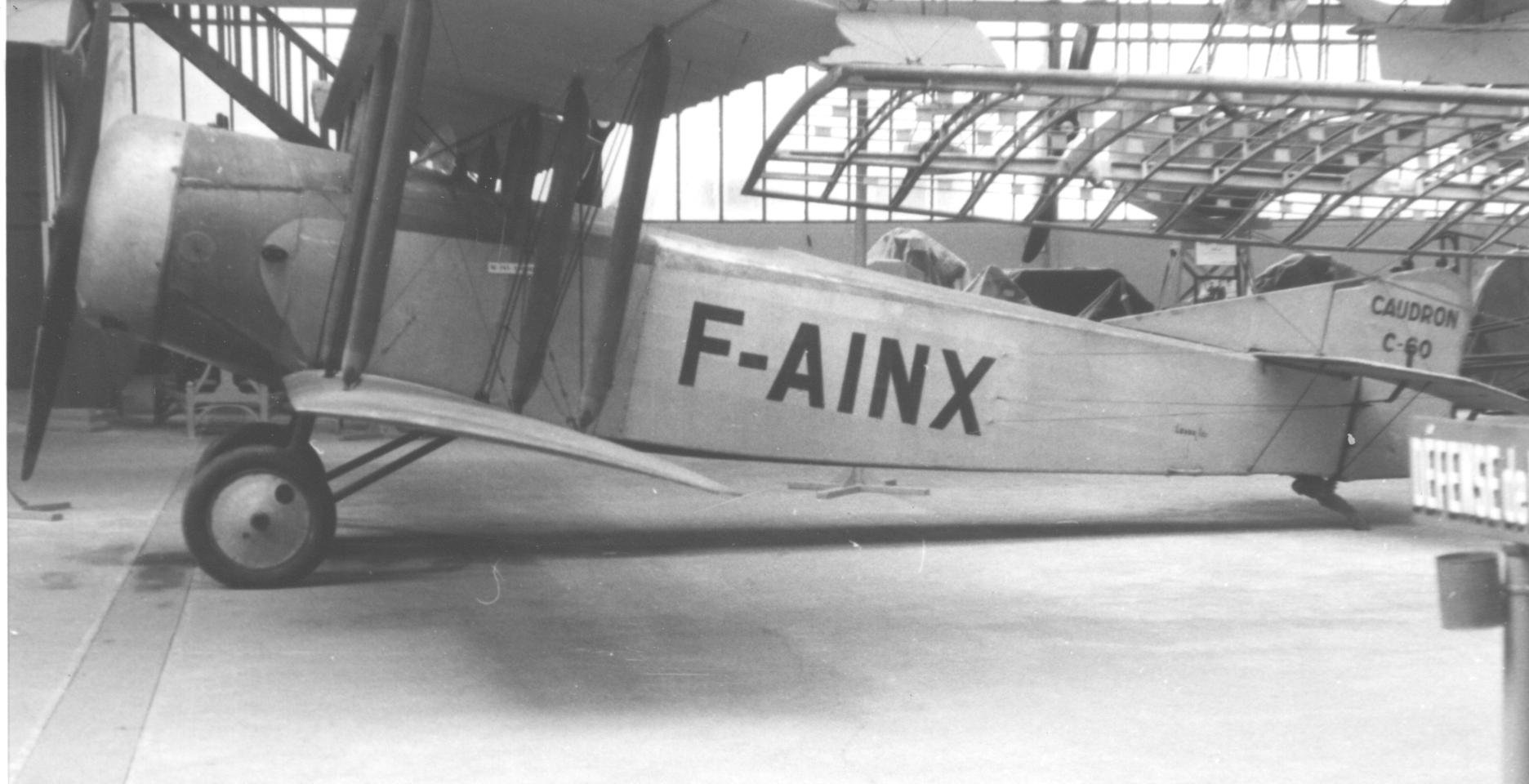 Caudron C.60 biplane at St Cyr l'Ecole airfield near Paris